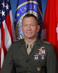 Lieutenant General Jon M. Davis, USMC Deputy Commander, U.S. Cyber Command